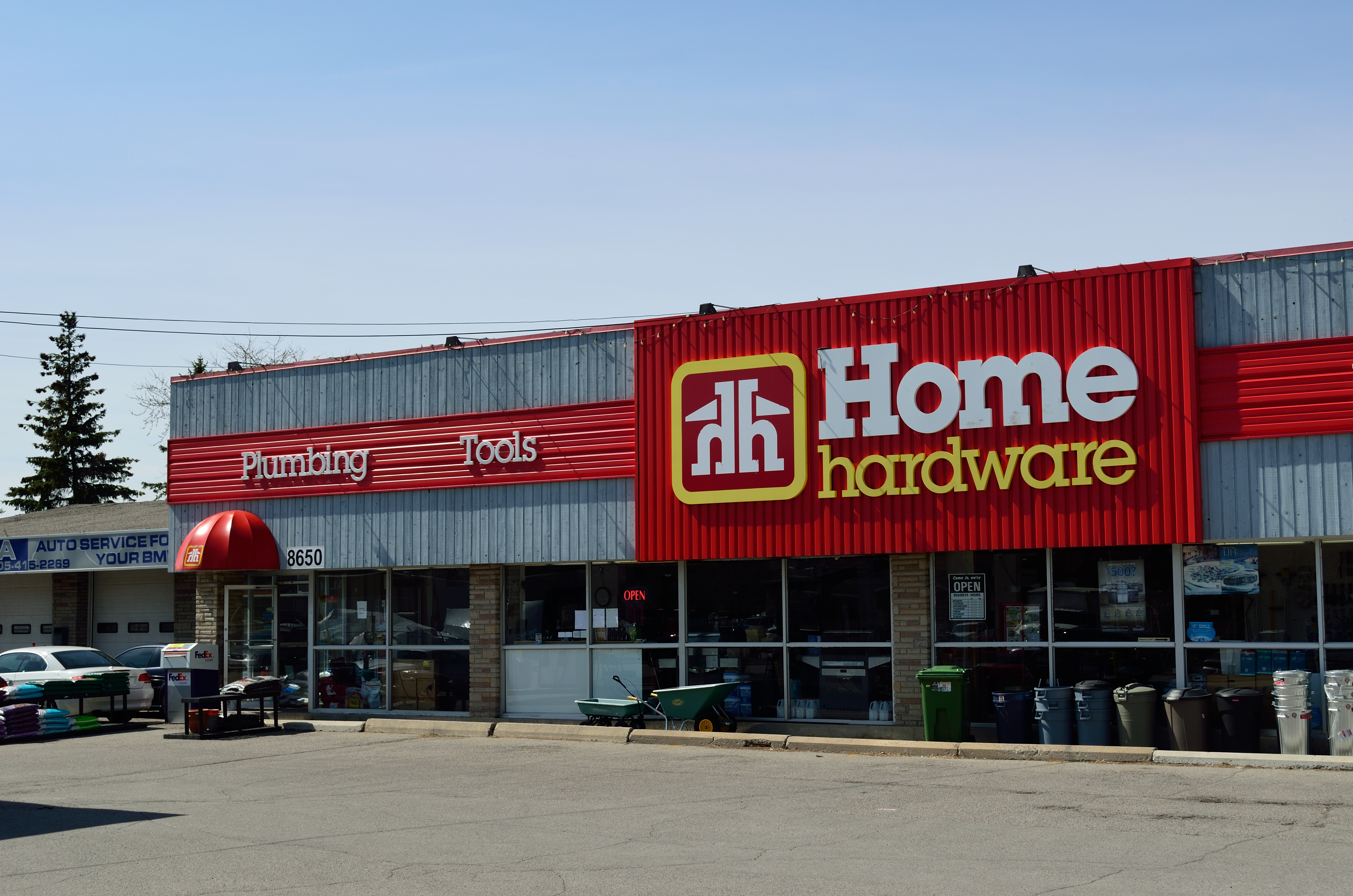 Home Hardware - Address: 8650 Woodbine Ave, Markham, ON L3R 4X8